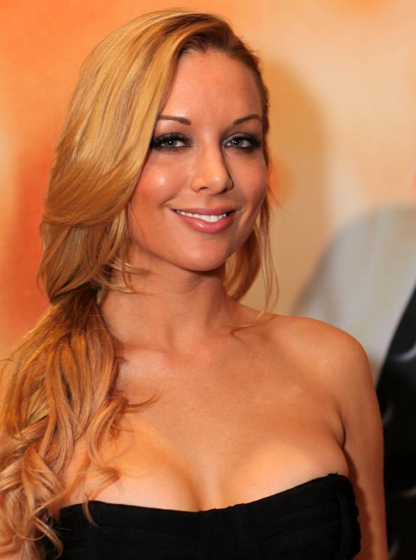 Kayden Kross